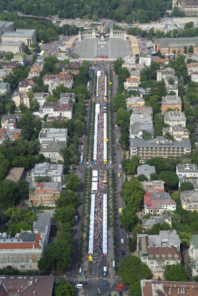 Andrássy street, Hungary, Budapest, aerial photography